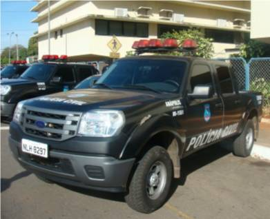 Ford police pickup of Goiás Police State - Brazil.